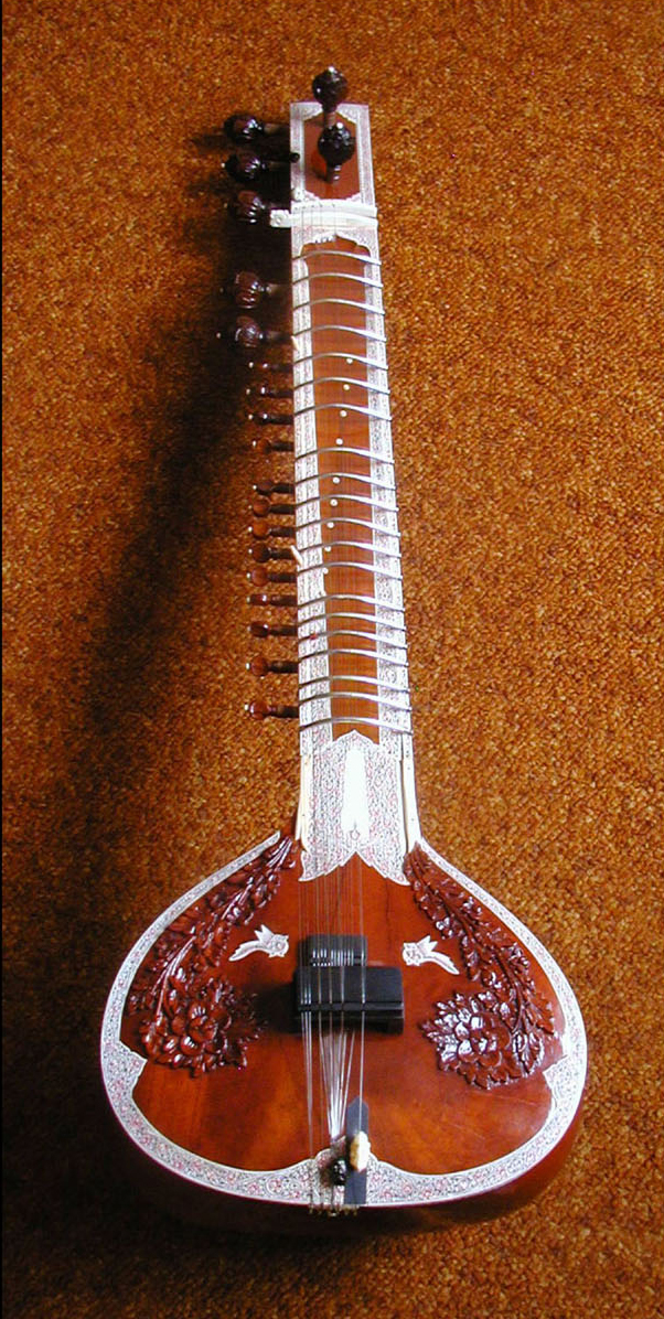 photo of miraj sitar